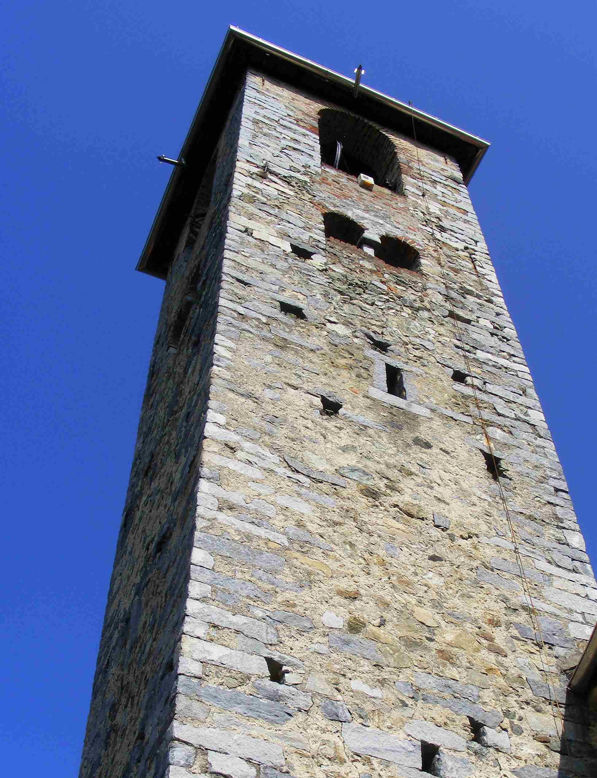 Callabiana bell tower (BI, Italy)